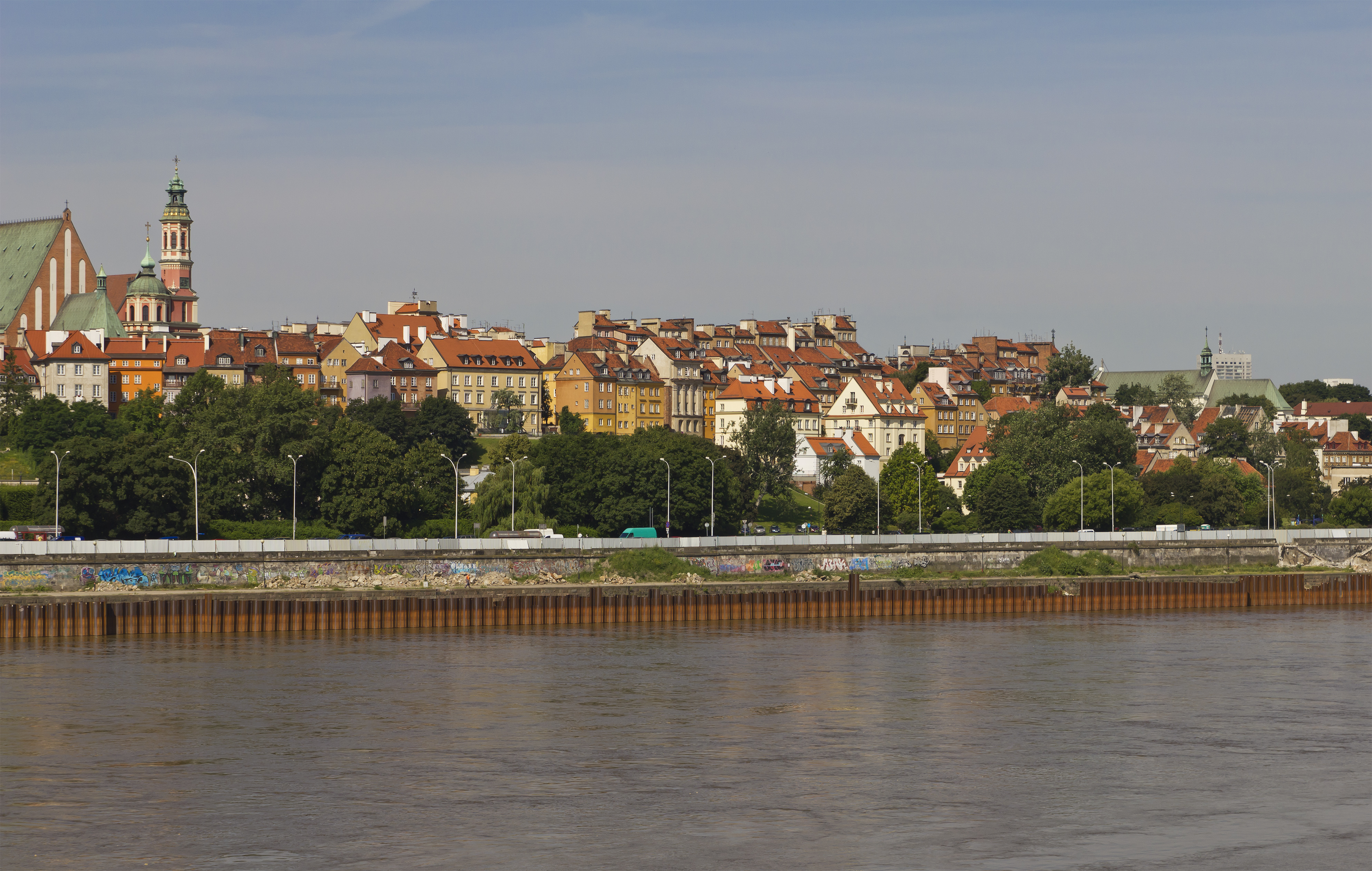 Old Town of Warsaw (Poland) as seen from Slasko-Dabrowski Bridge